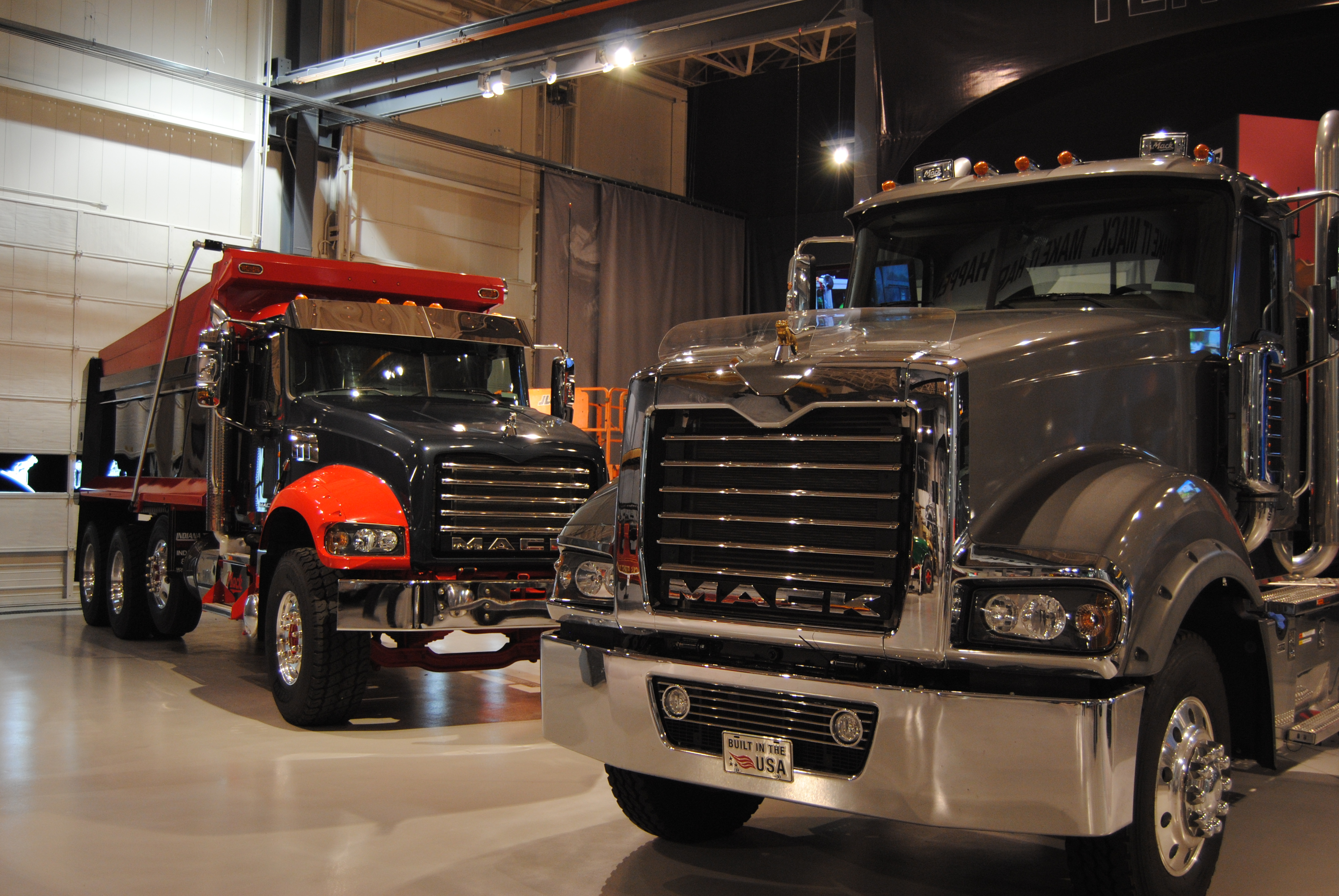 Mack Truck Historical Museum, Allentown, Pennsylvania